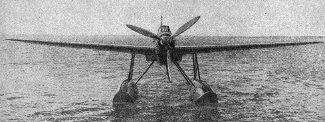 Latécoère 298 photo from L'Aerophile August 1938